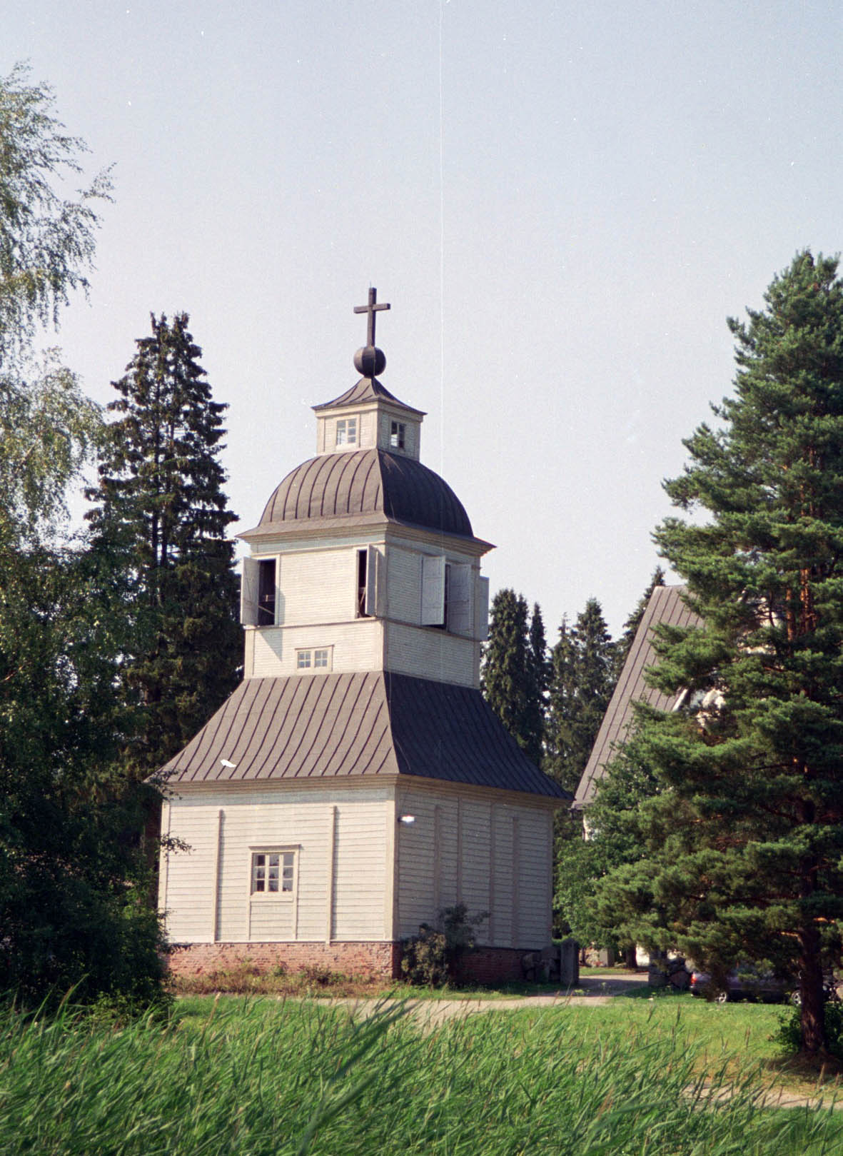 Belltower of Sysmä Church, Finland, built in 1845